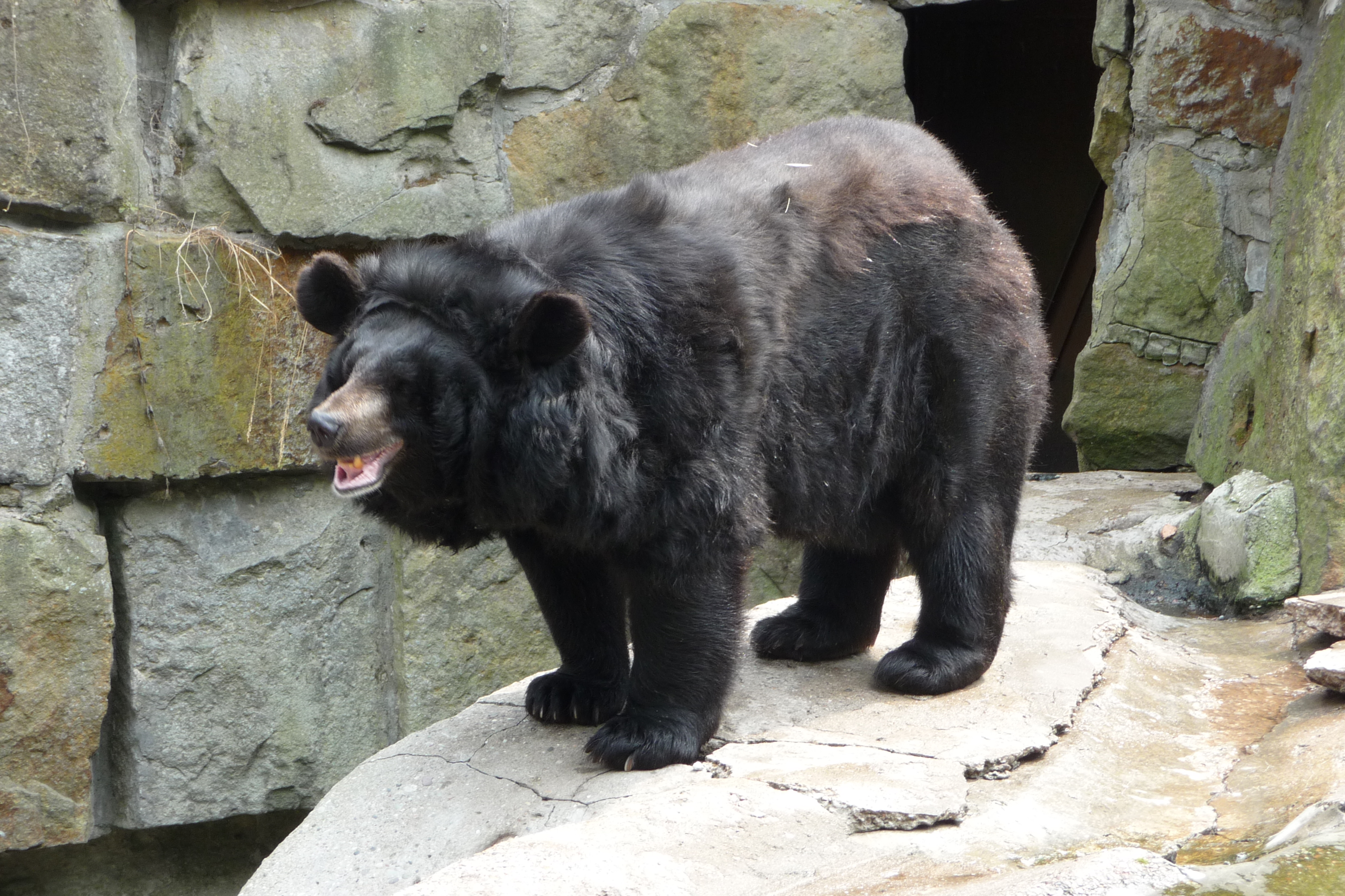 Ussuri Black Bear in Kaliningrad Zoo